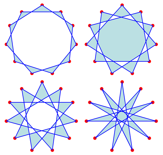 The four hendecagram forms.